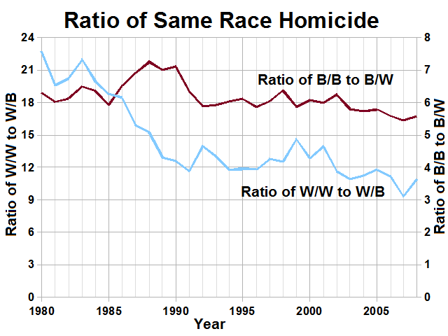 Ratio of same race homicide in the United States to someone of the opposite race. In 2008 whites killed other whites 10.9 times as often as they killed someone who was black, and blacks killed other blacks 5.6 times as often as they killed someone who was white. The rate did not change very much from 1980 for blacks, when it was 6.3, but was twice as high for whites, 22.8, that year. Blacks have been killing about the same number of whites, 6.6 per 100,000 vs 8.0 per 100,000 in 2008, but whites have been killing significantly more blacks, 2.1 per 100,000 vs. 3.7 per 100,000. But blacks mostly kill other blacks, and whites mostly kill other whites.